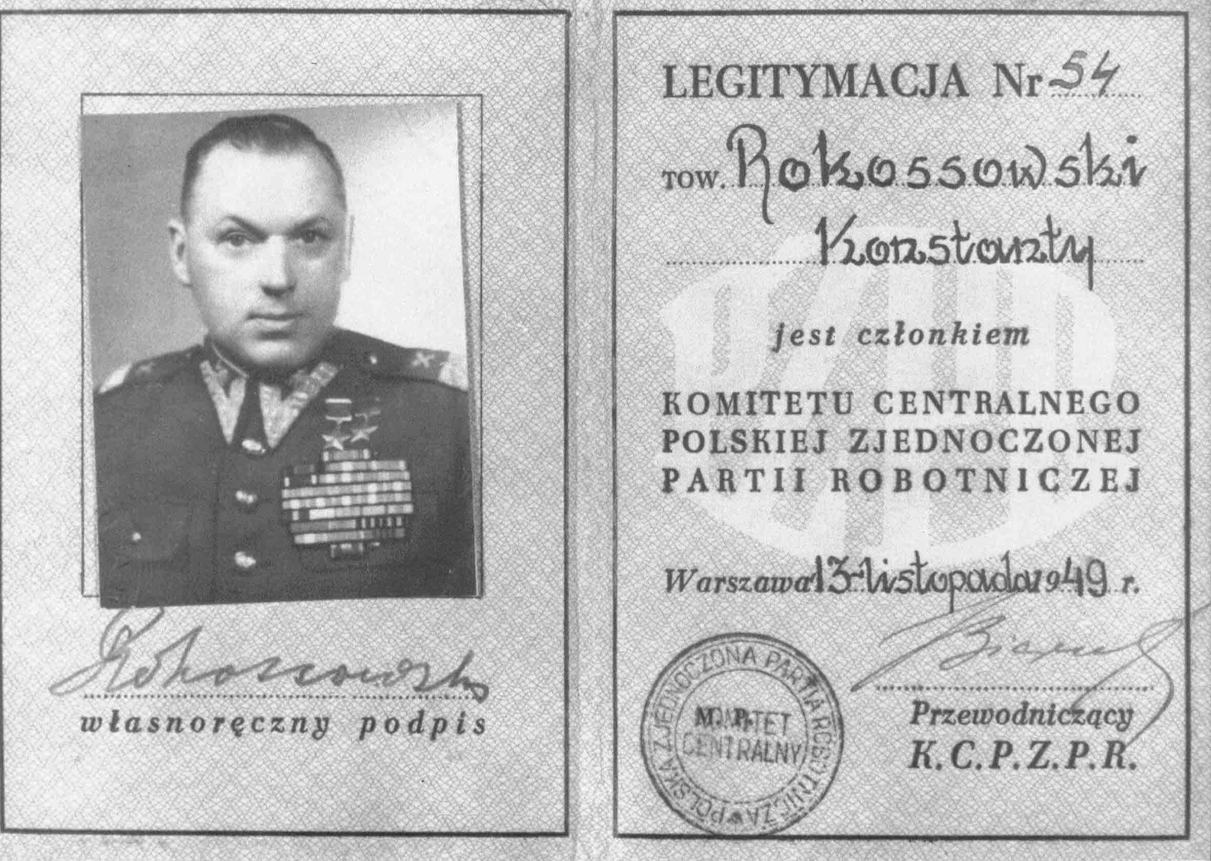 Konstantin Rokossovsky's testimony of Polish United Workers' Party, signed by the owner (left) and party's president, Bierut (right)